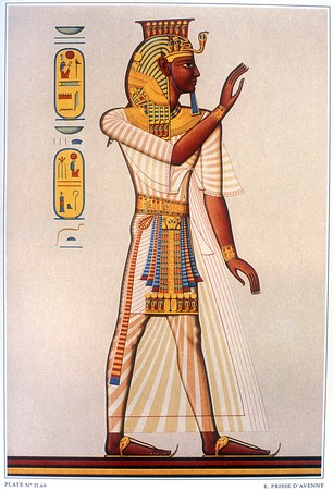 Rameses III. Scene from tomb of Ramses III. (KV11)